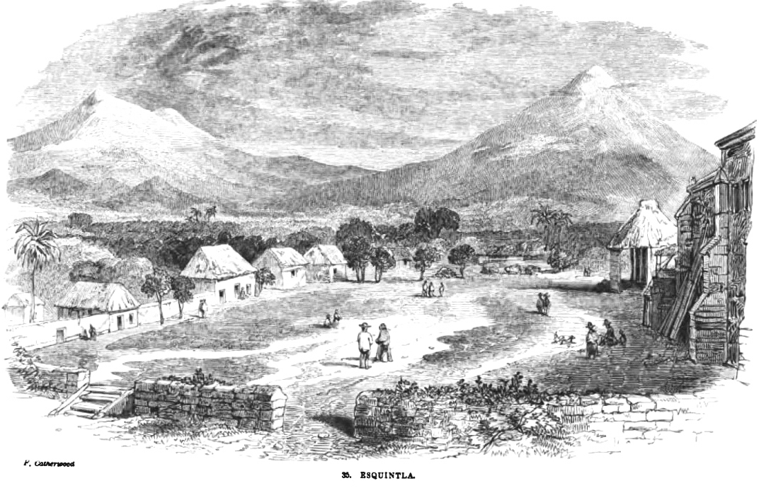 Escuintla is a city in south central Guatemala. It is the capital of the Escuintla Department and the administrative seat of Escuintla Municipality. In 2003 the city had a population of about 68,000 people. It is on the border of the central highlands and the Pacific coastal plain.